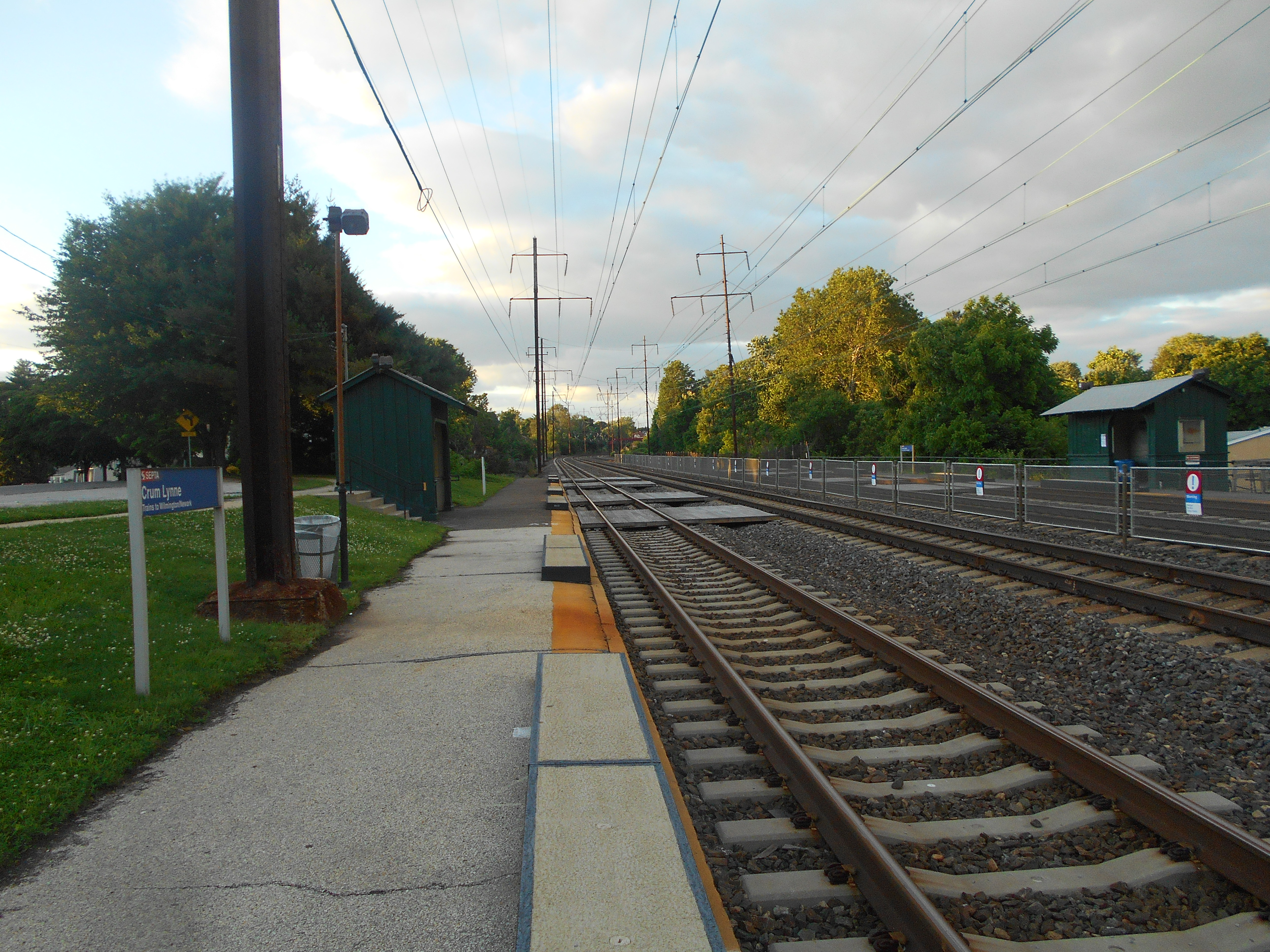 The Crum Lynne SEPTA Regional Rail station in Crum Lynne, Pennsylvania.